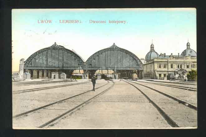 Lwów train station on an old postcardCopyright expiredReproduction taken from Allegro, the owner agreed to release it to PD